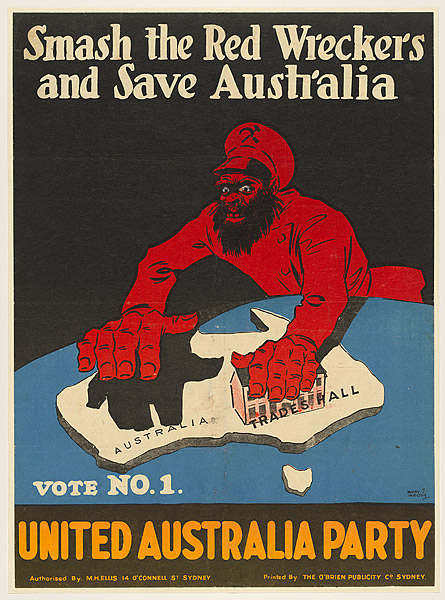 Australian political poster espousing anti-communism and promoting the United Australia Party, titled "Smash the Red Wreckers and Save Australia". Produced for the 1931 Australian federal election (source).